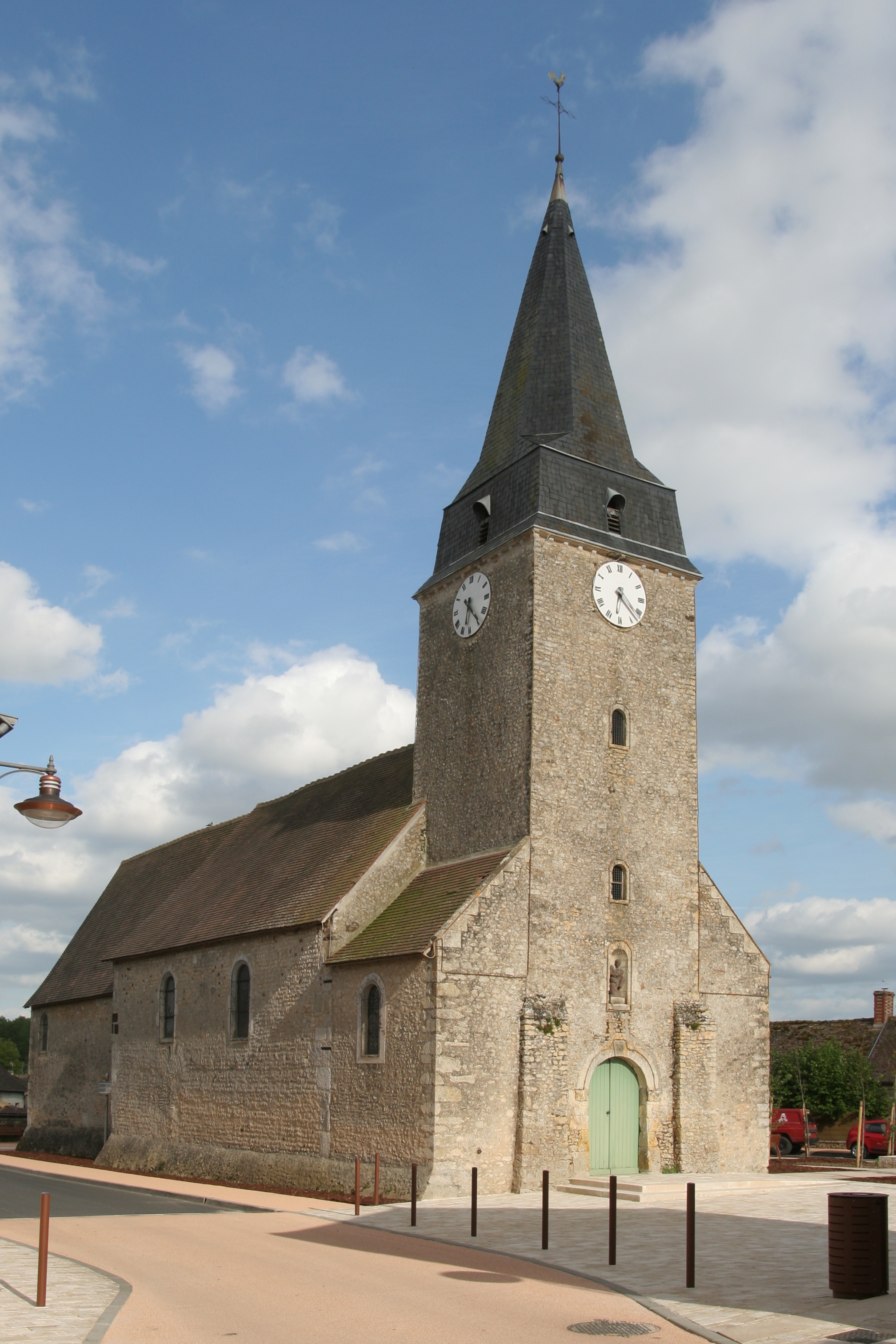 Saint Martin church of Soulitré.